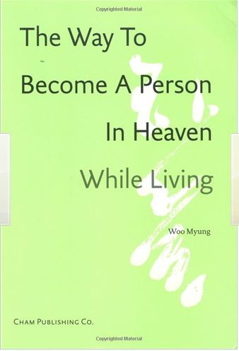 The Way To Become A Person In Heaven Whlie Living by Teacher Woo Myung